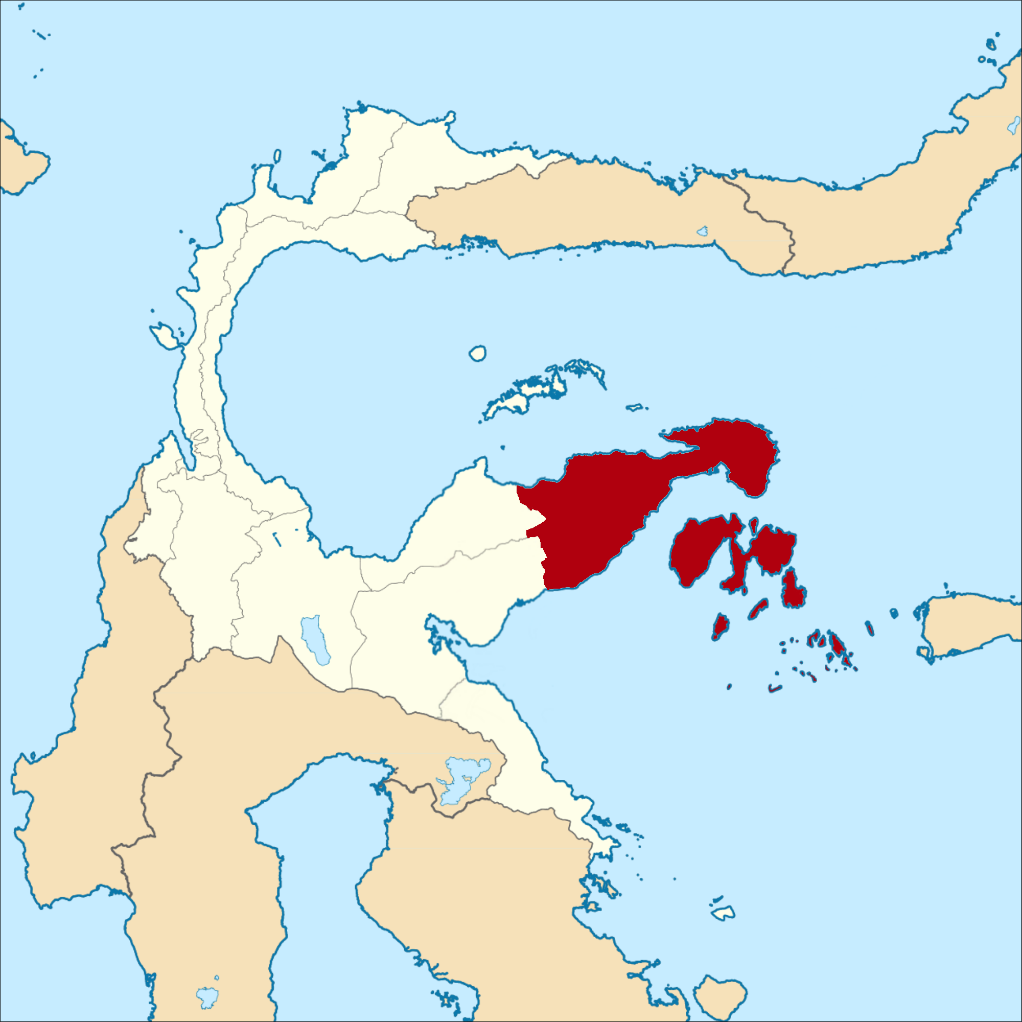 Banggai, Banggai Islands and Banggai Laut regencies in Central Sulawesi - roughly corresponding to the old Banggai Kingdom